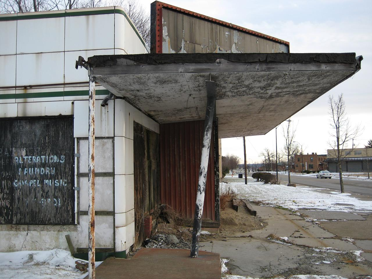 An abandoned shop in Youngstown, Ohio, United States.